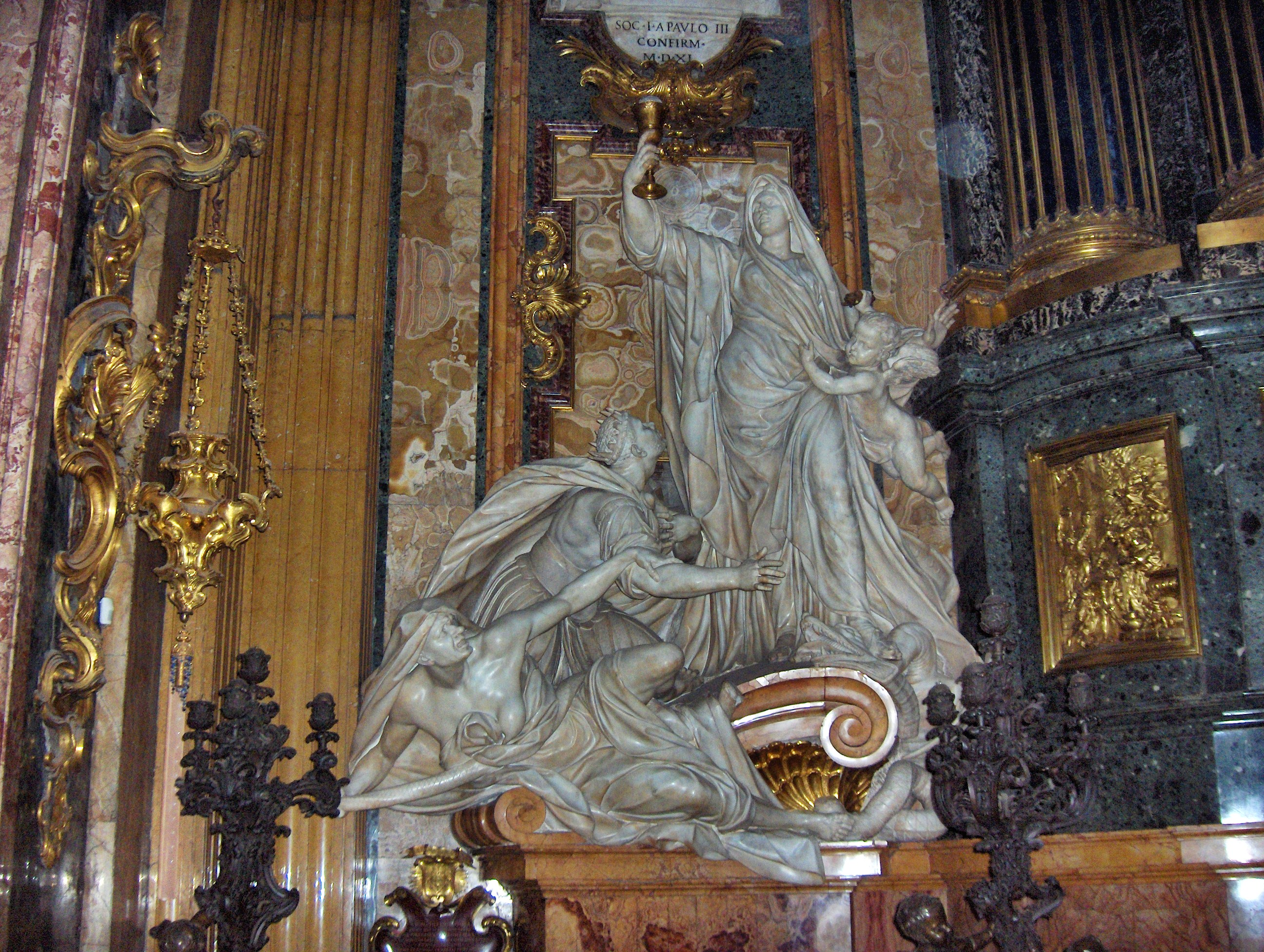 Altar of the chapel S. Ignatius; "Faith defeats idolatry" by Jean-Baptiste Théodon; in the church Il Gesù, Rome.